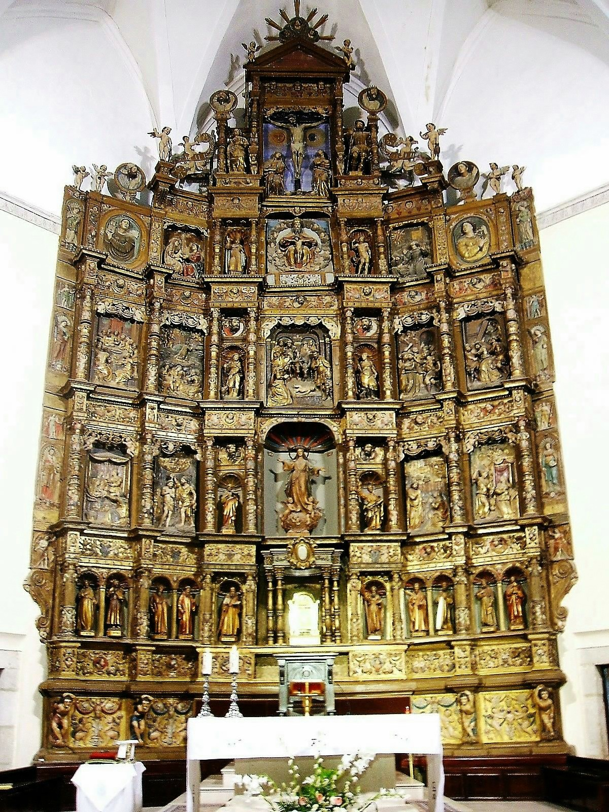 Main retable of the Church of Our Lady of the Assumption, Tarancón (Cuenca, Spain)